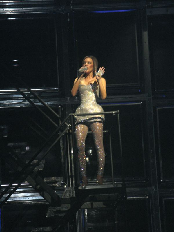 Victoria Beckham during the Return of the Spice Girls tour